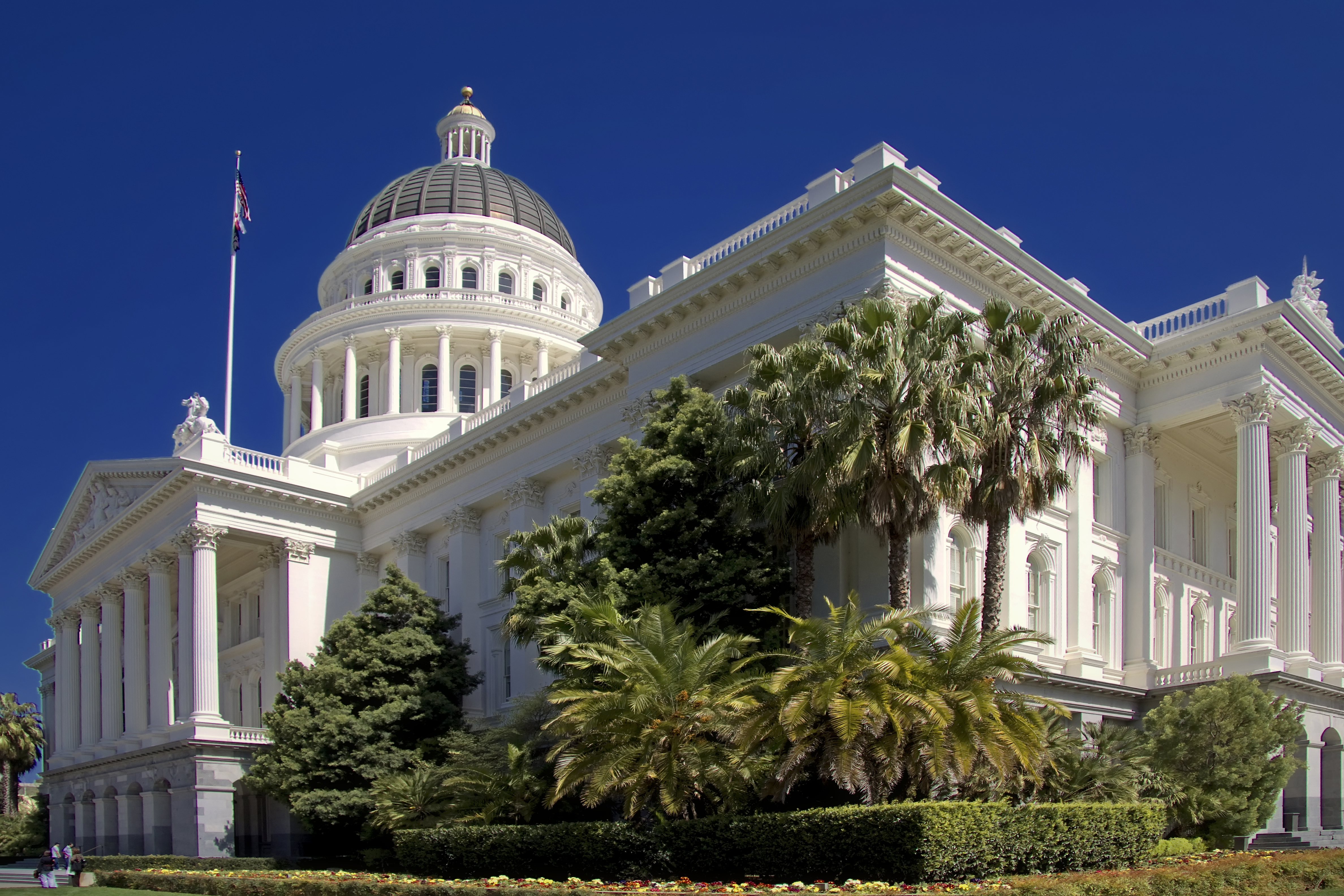 California State Capitol 10th Street and L Street Sacramento, California